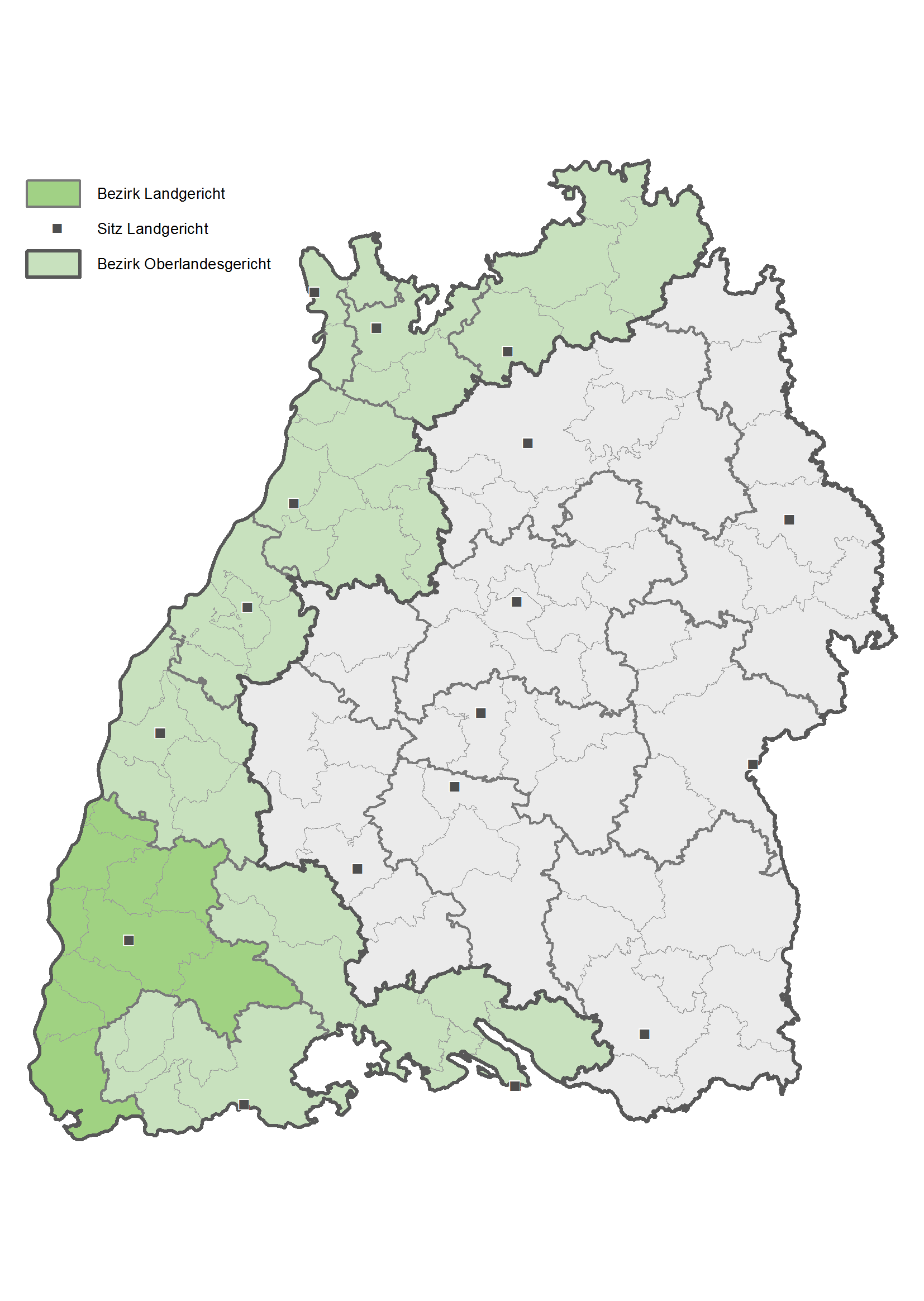 district map of the Landgericht (regional court) Freiburg im Breisgau in Baden-Württemberg, Germany